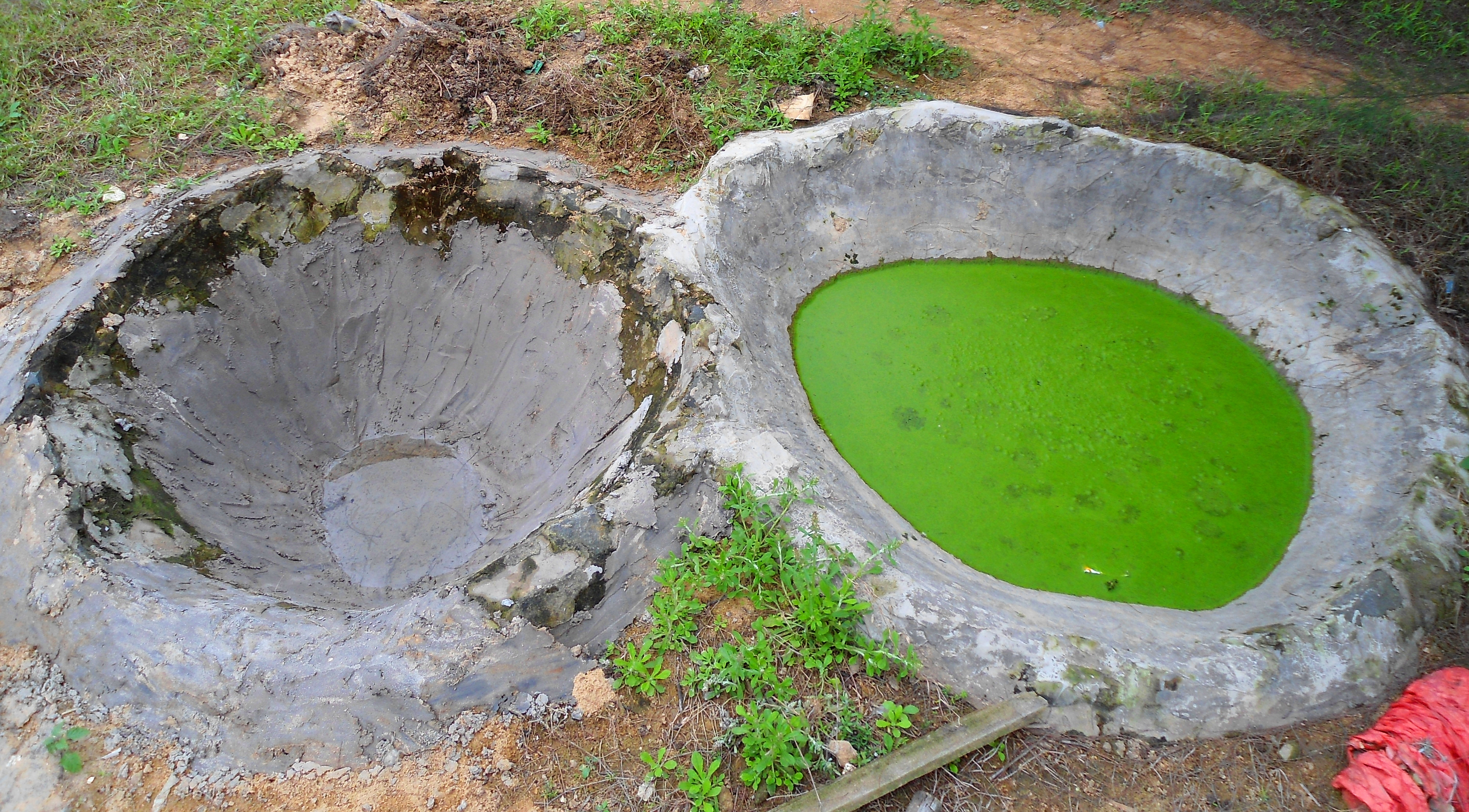 Cement pools used to contain cow manure and water to be used as fertilizer, Hainan Province, China. Width of each pool approx. 0.75 metres (30 inches). These are both new. The one on the left has yet to be used. The one on the right was very recently filled with manure and water and has yet to turn brown.